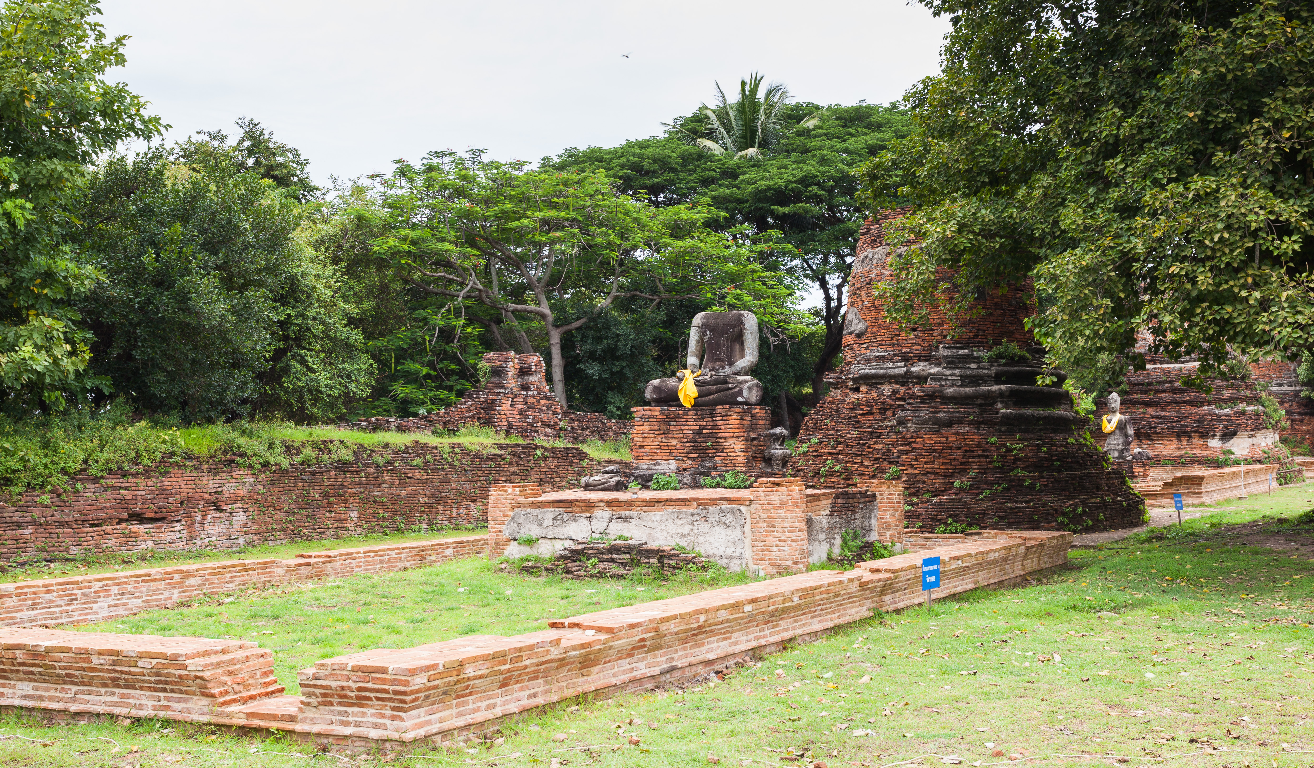 Templo Phra Si Sanphet, Ayutthaya, Tailandia